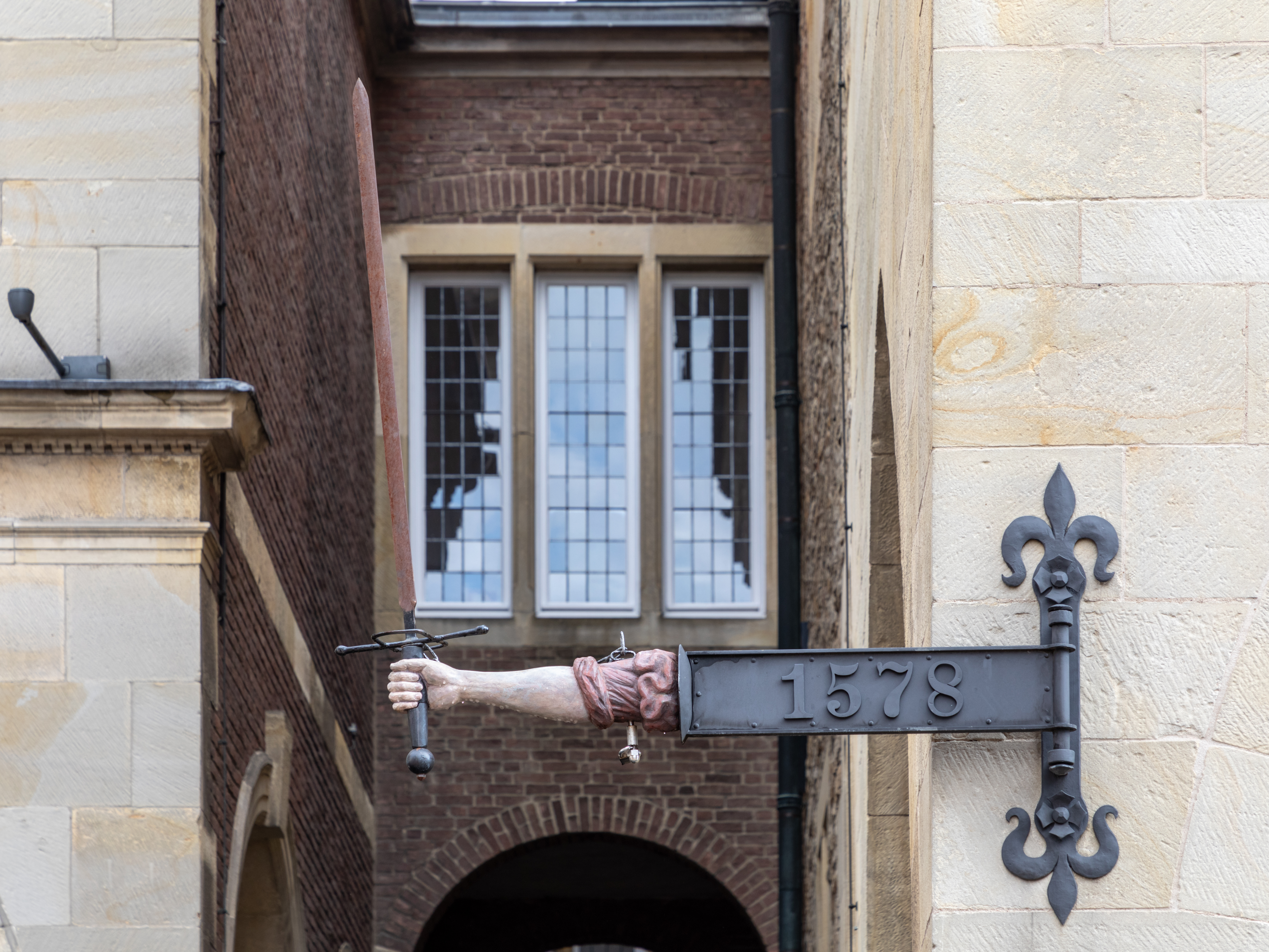 Send sword (replica) at the historic town hall in Münster, North Rhine-Westphalia, Germany Sculpture TitleSendschwertArtistUnknown artistDate13 October 1578, Relikat: 22 March 2001